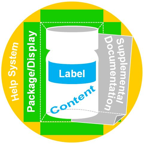 Diagram of over-the-counter data (OTCD) components that categorizes the OTCD Standards used by educational technology data systems or reports when communicating data to educators; diagram created by Jenny Grant Rankin, 2012